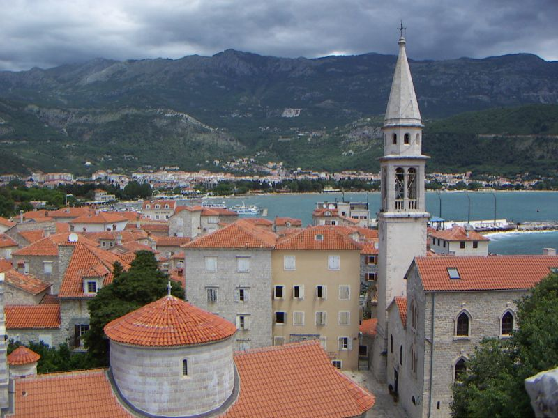 Budva Old Town